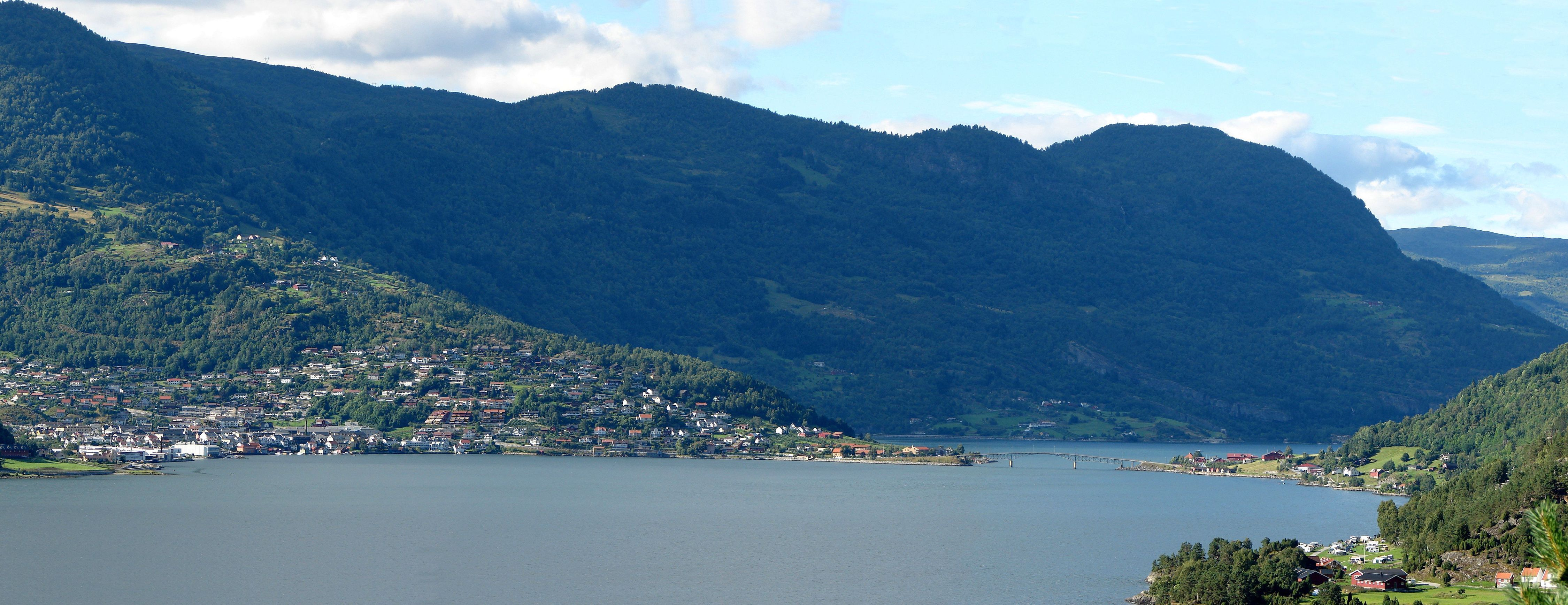 Sogndal and Loftesnes on the right side of the bridge.In front the Sogndals-fjord (arm of the Sognefjord)behind the bridge the Barsnes-fjord. There are 2 mainroads through Sogndal, Rv5 the bridge and RV55 left side of the Barsnesfjord to the Sognefjell. Norwegian: Sogndal er kommunesenteret i Sogndal kommune og ligg inst i Sogndalsfjorden.RV55 og Rv5 har felles trasé gjennom Sogndal.